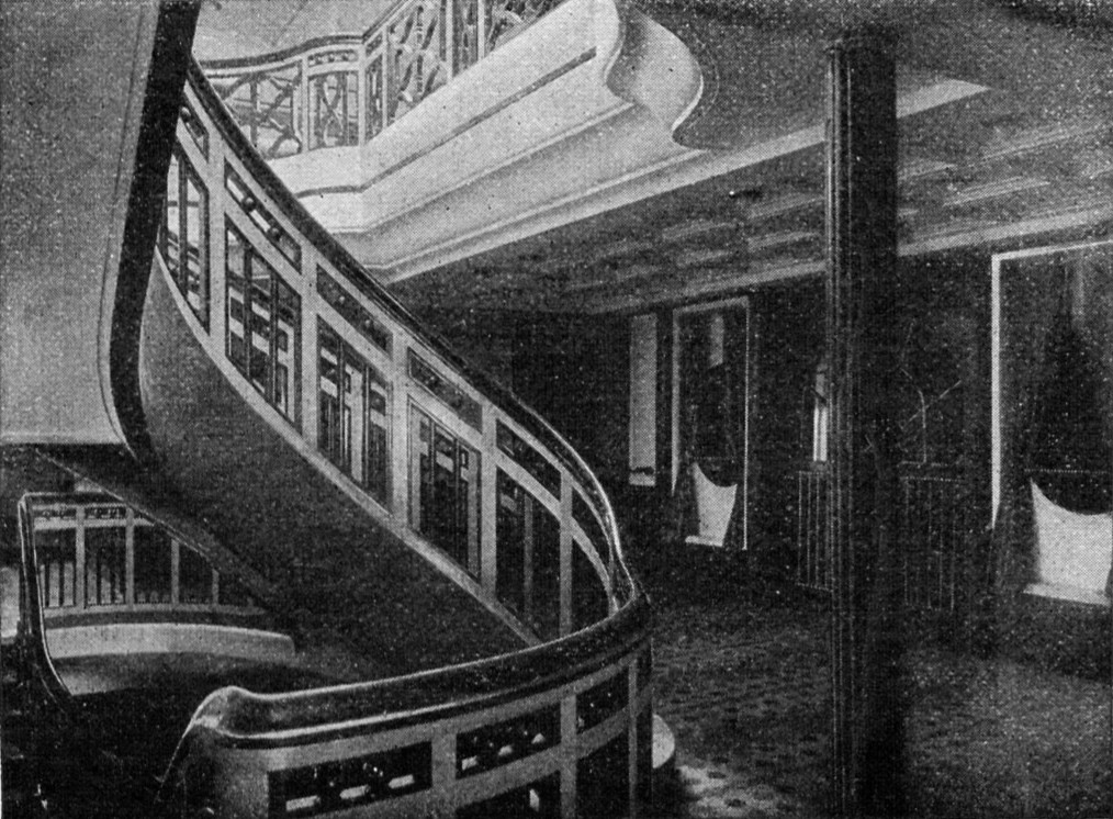 Staircase in the George Washington luxury steamer, built by the Norddeutsche Lloyd in 1909